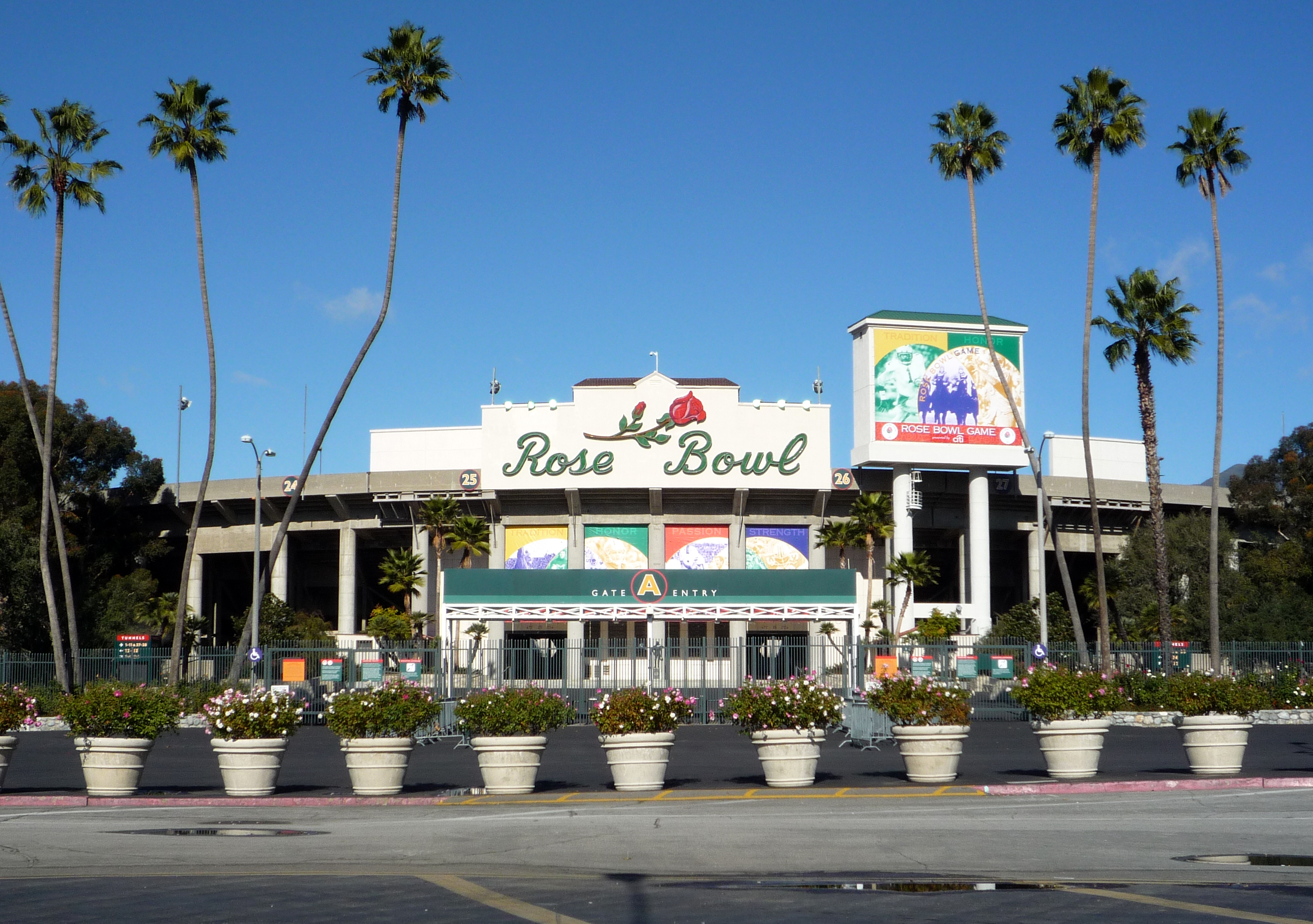 The Rose Bowl stadium before the 2009 Rose Bowl game.